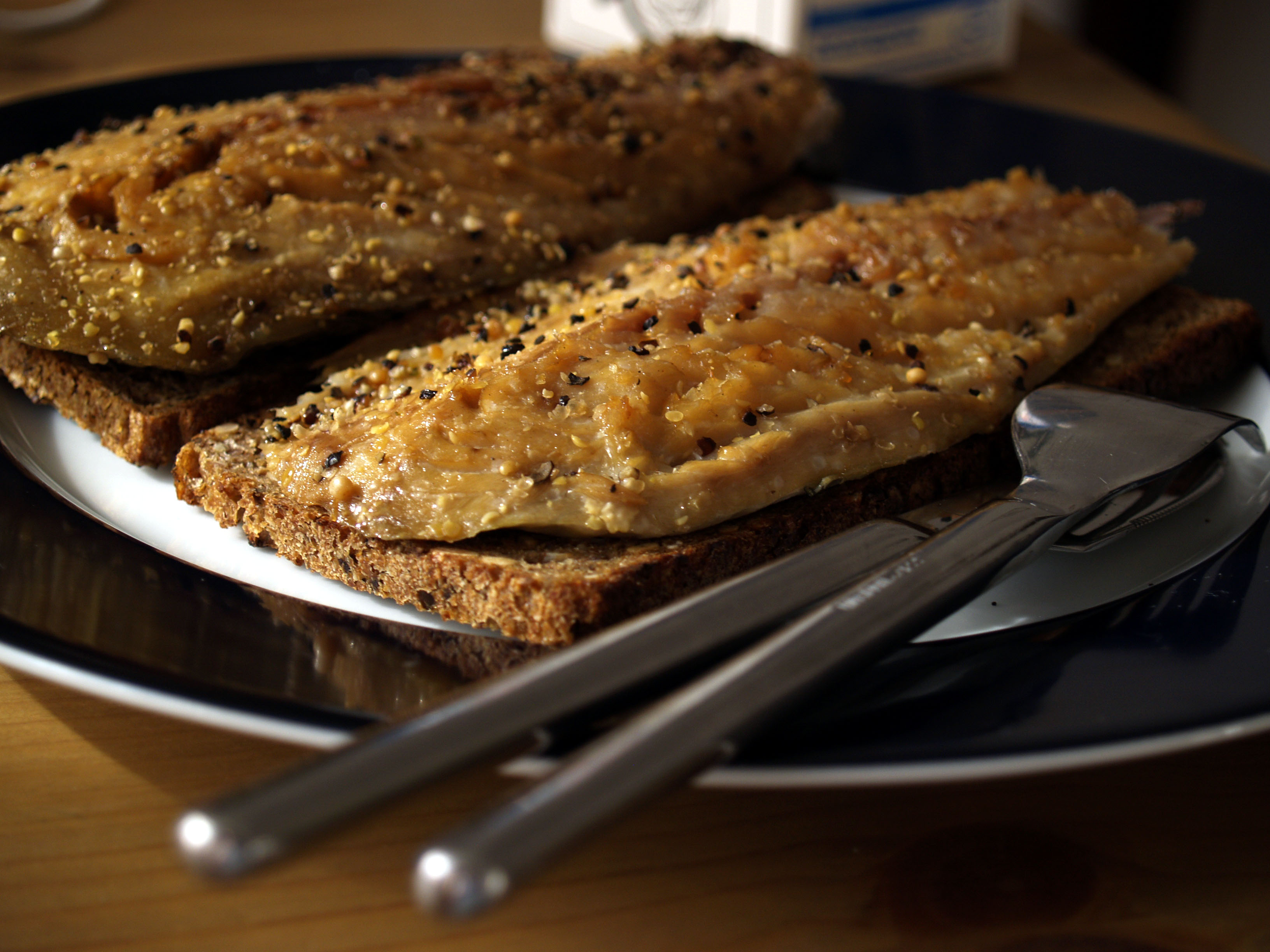 Rye bread with smoked "pepper mackerel"